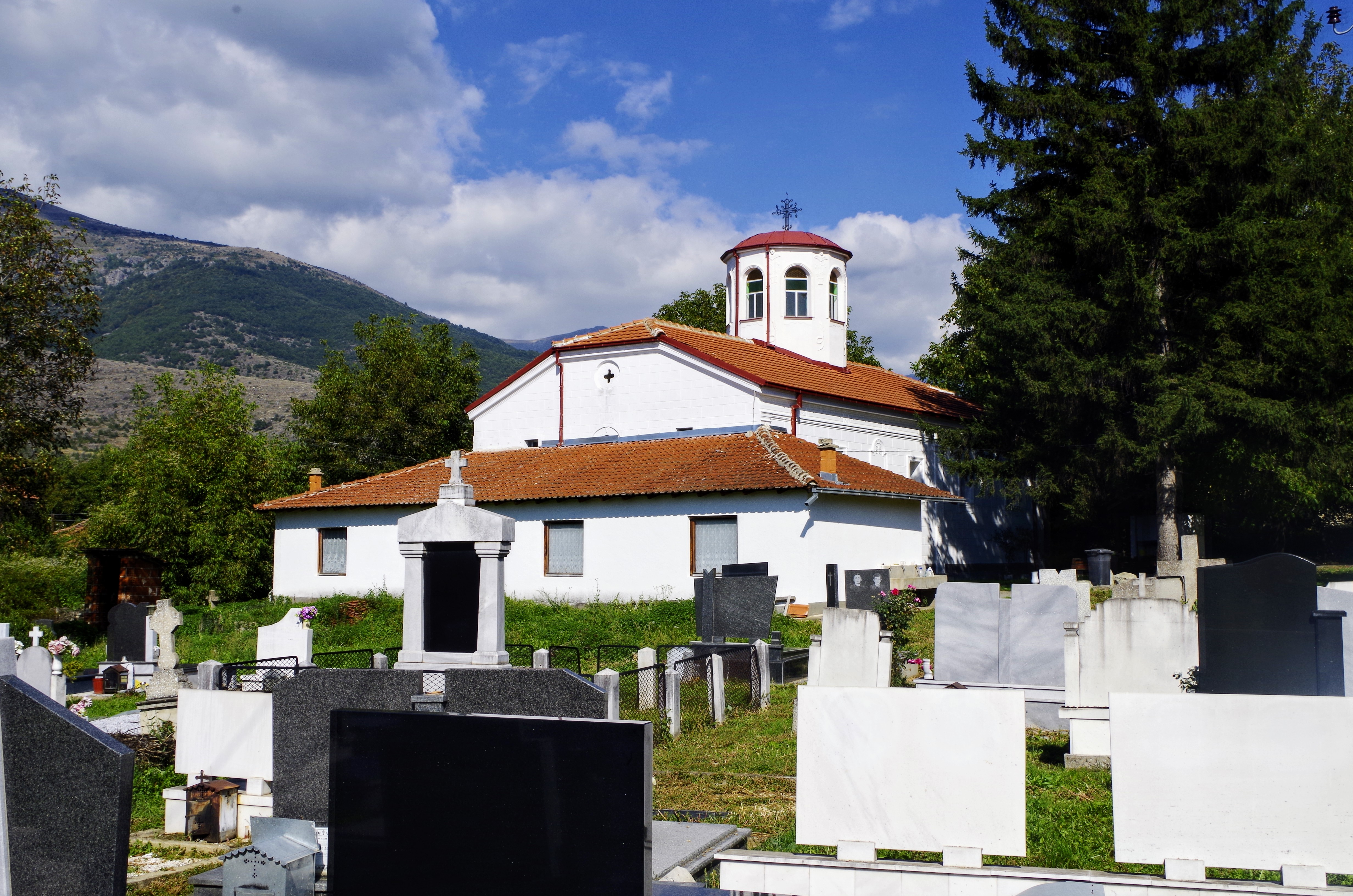 View of the St. John the Baptist Church in the village Ljubojno